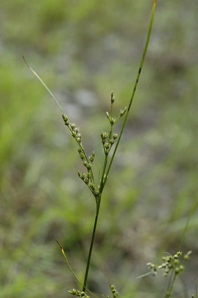 Picture taken in Commanster, Belgian High Ardennes . Species: Juncus tenuis